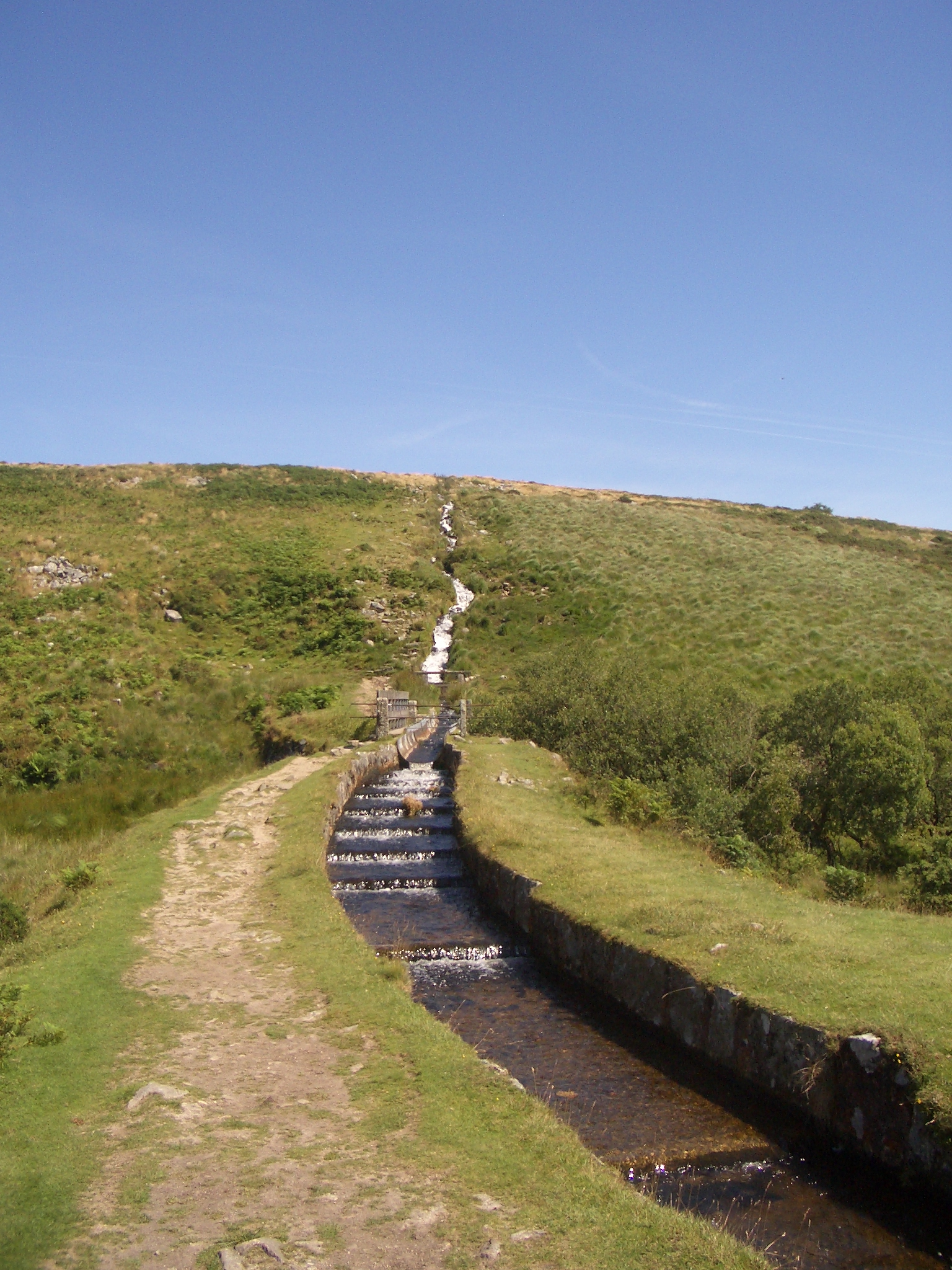 Devonport Leat, Dartmoor, England photographed looking across the aqueduct to the east. Nearby landmarks are Burrator Reservoir and Black Tor